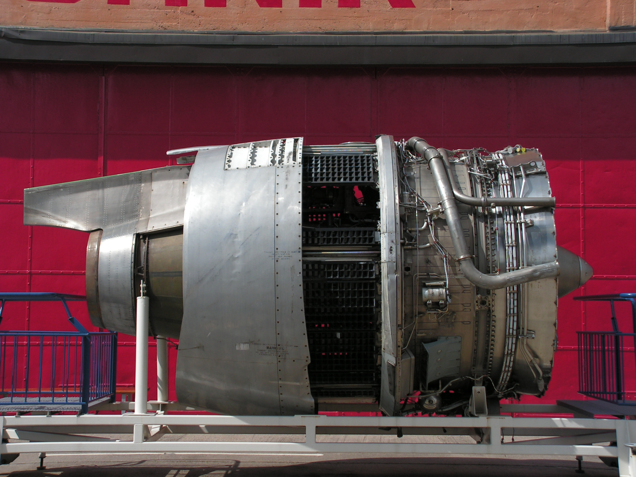 Civil aircraft engine "RB211-524B" from the Technik Museum, Speyer, Germany. Made by Rolls Royce ~1970es, seen here with incomplete aerodynamic cover and with thrust reverser in activated position. The RB211 series was initially used on the Lockheed L-1011 TriStar airliner (but never on the McDonnell Douglas DC-10 airliner).